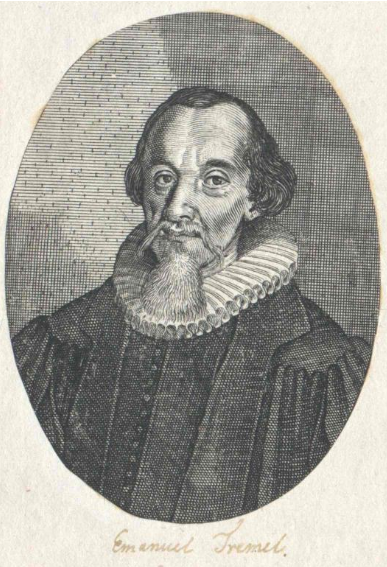 Portrait of Immanuel Tremellius